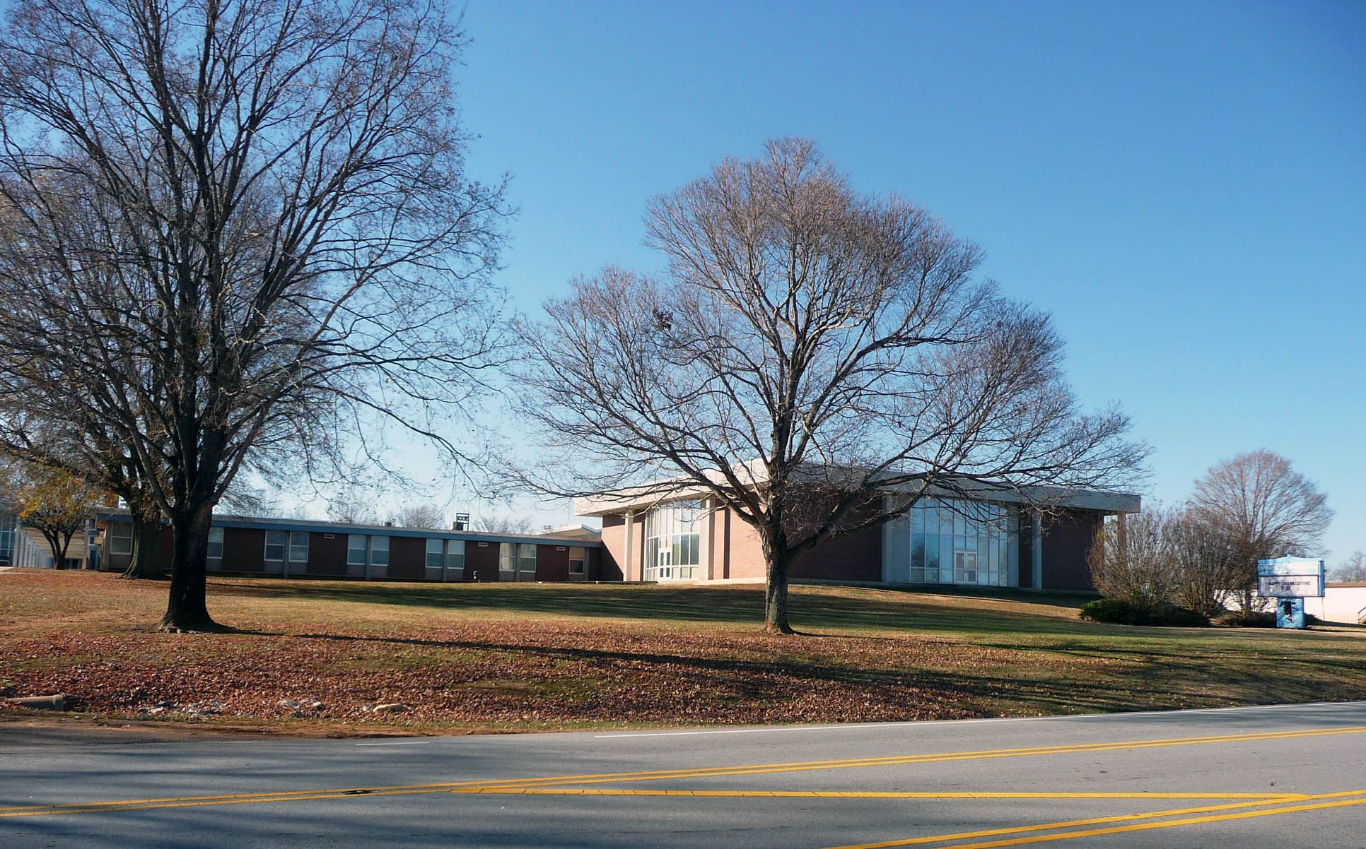 Front of West Rowan High School in Mount Ulla, North Carolina. Taken from NC Highway 801.